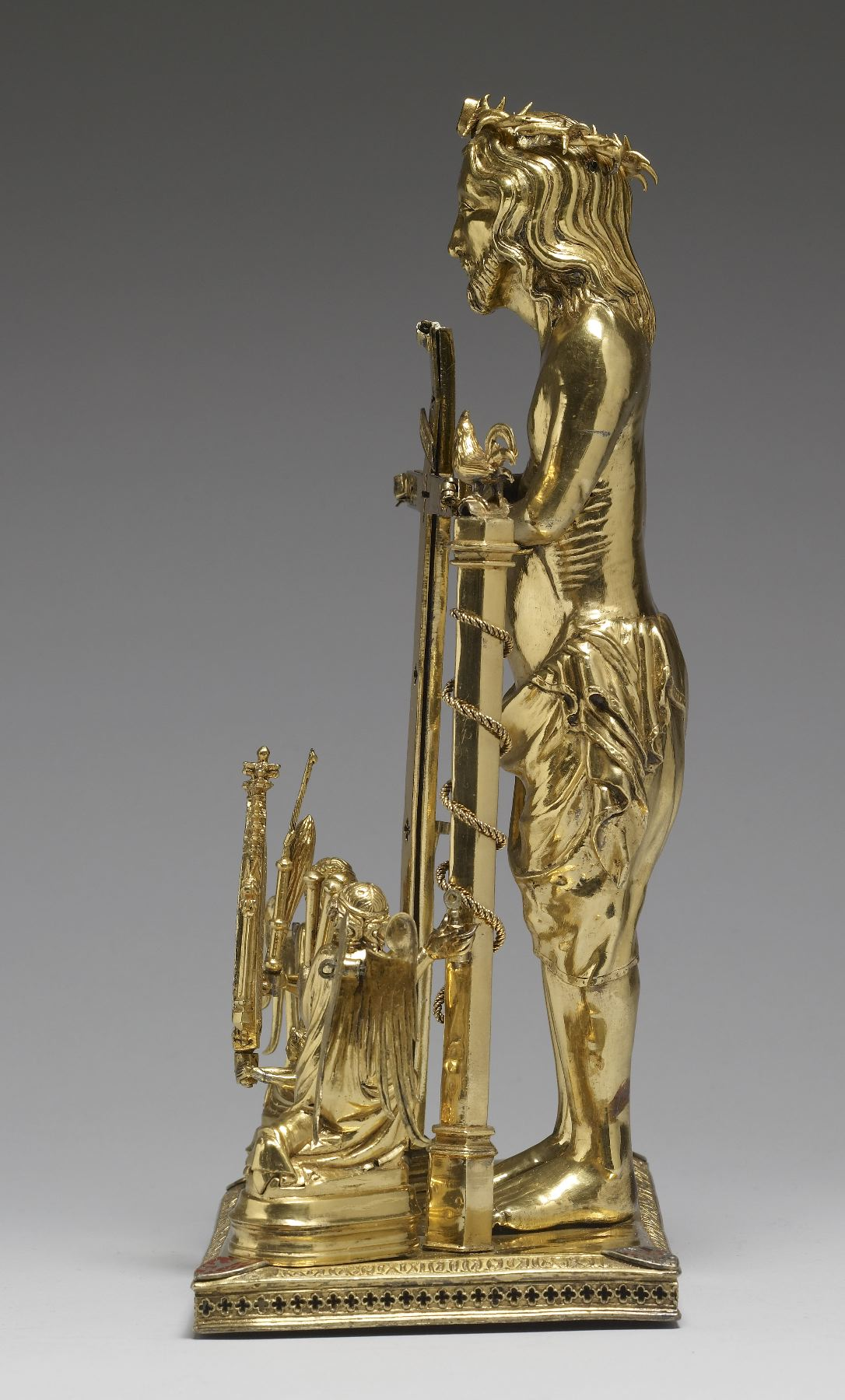 The image of the Man of Sorrows is a distillation of the events of Christ's Passion. Christ contemplates with sorrow the instruments of his suffering: the cross and hammer, whips, nails, column of the Flagellation, and the dice thrown by the soldiers for his garments. The gabled container held by an angel once housed a thorn believed to be from Christ's Crown of Thorns, while the hinged cross and column probably held pieces of wood believed to be from Christ's cross and from the column against which he was whipped. According to an inscription on the base, the reliquary was ordered by the bishop of Olomouc in Moravia to house the Holy Thorn. It was surely a present for Holy Roman Emperor Charles IV. Both men's coats of arms (those of Moravia and Bohemia) are on the base, and the thorn was already in the emperor's famous collection of relics, as a gift from the king of France. As Charles reigned over both Bohemia and Moravia only from 1347 to 1349, the piece dates to this time. The sophisticated workmanship is characteristic of objects created for the imperial court in Prague.